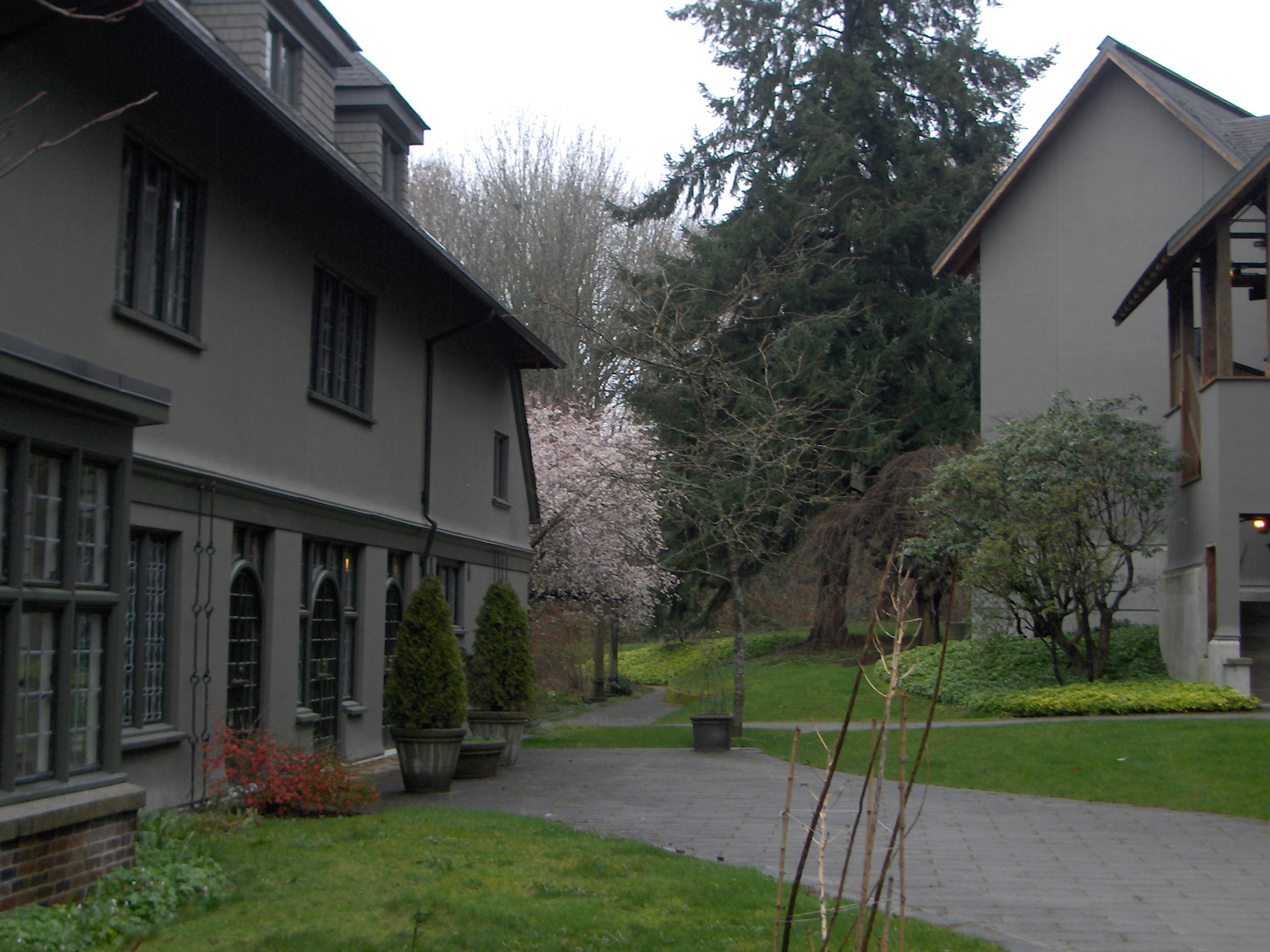 Interior of residential courtyard at Green College, University of British Columbia, showing Graham House on left and stair tower to residential building A on right.